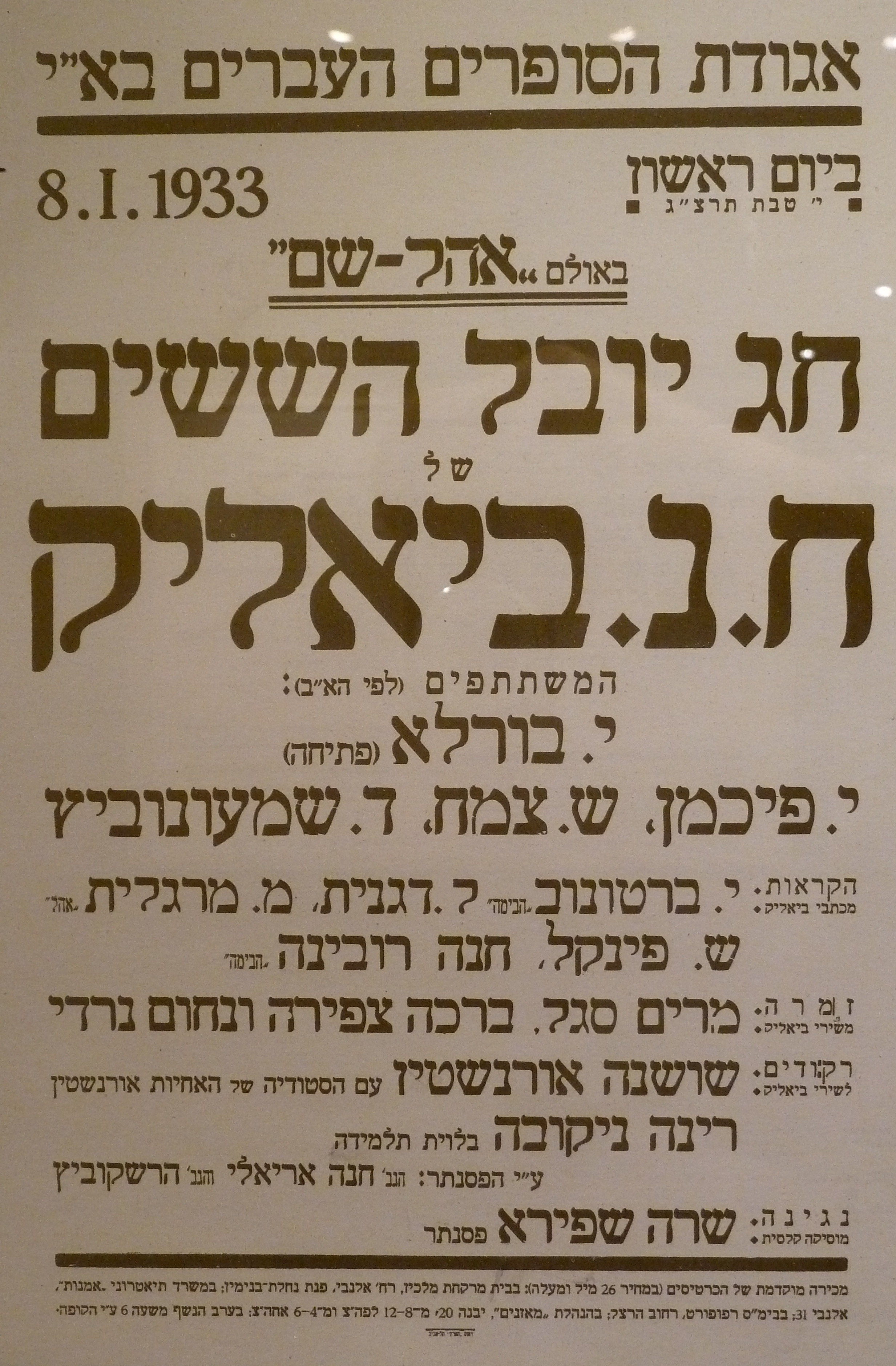 Tel Aviv Writer's Union ads from the 1920s and the 1930s. An exhibition at the Shalom Meir Tower